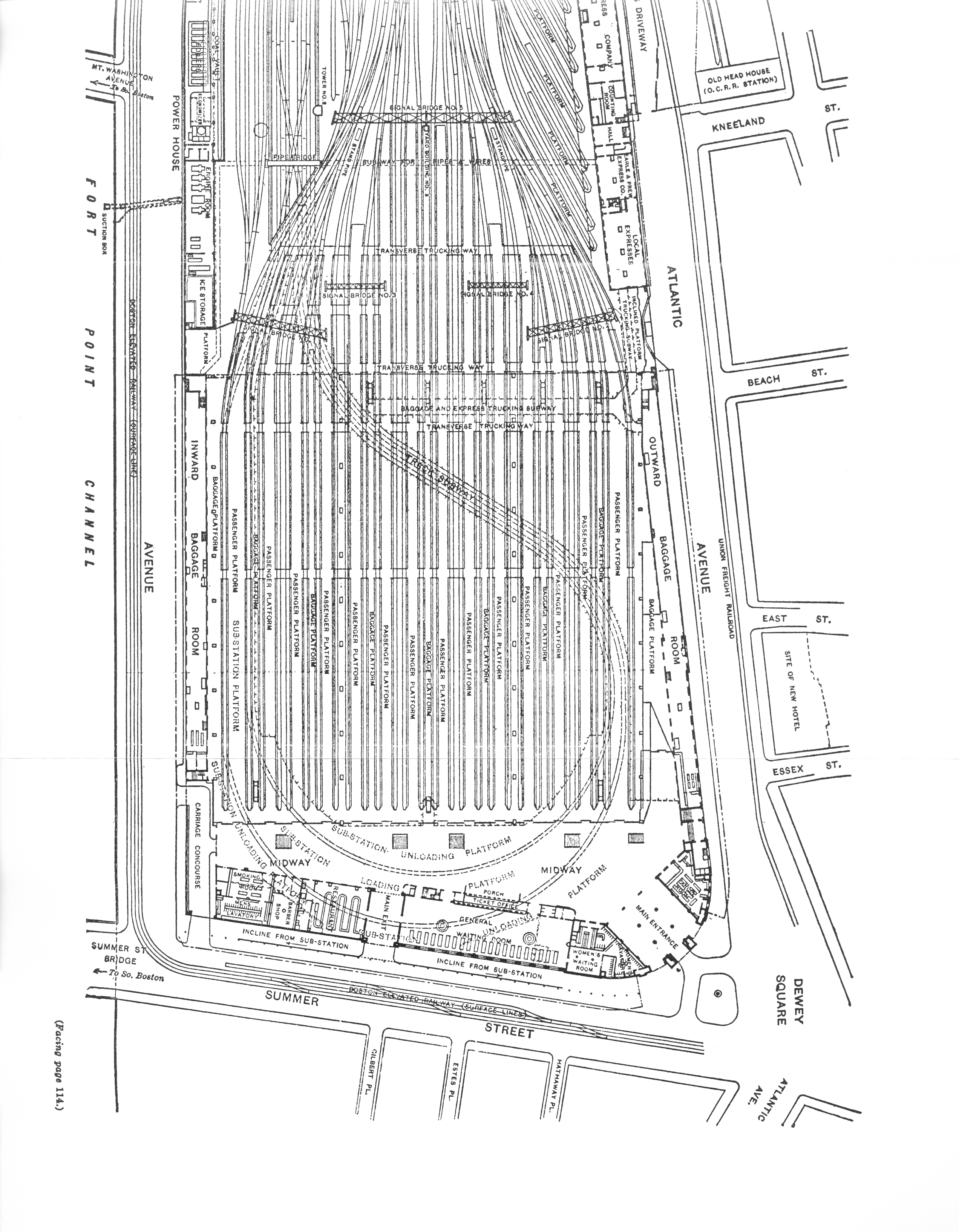 Diagram of original building and tracks at South Station, 700 Atlantic Avenue, Boston, Massachusetts.